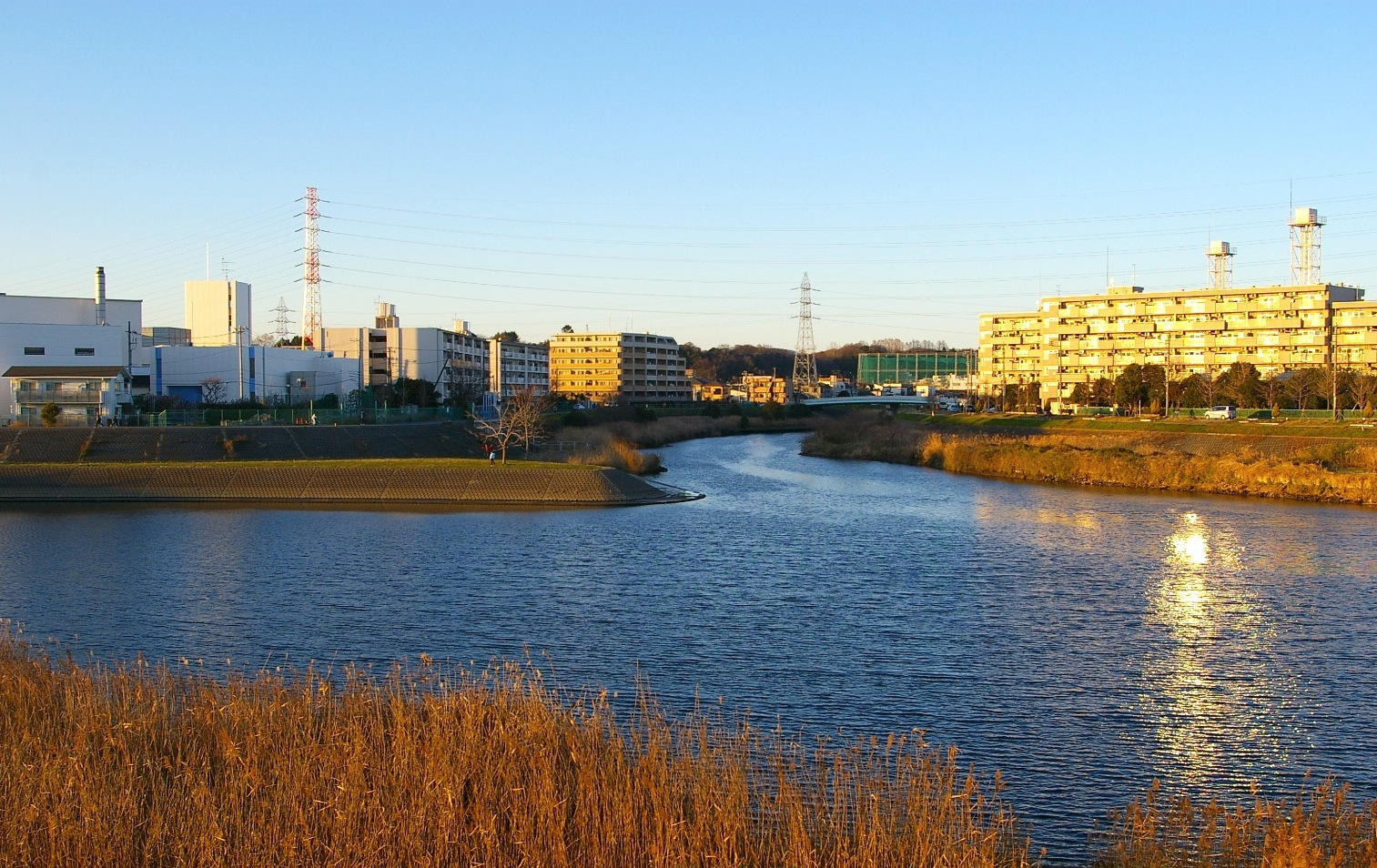 The Confluence of Yagami river and Tsurumi river in Tsurumi-ku, Yokohama.